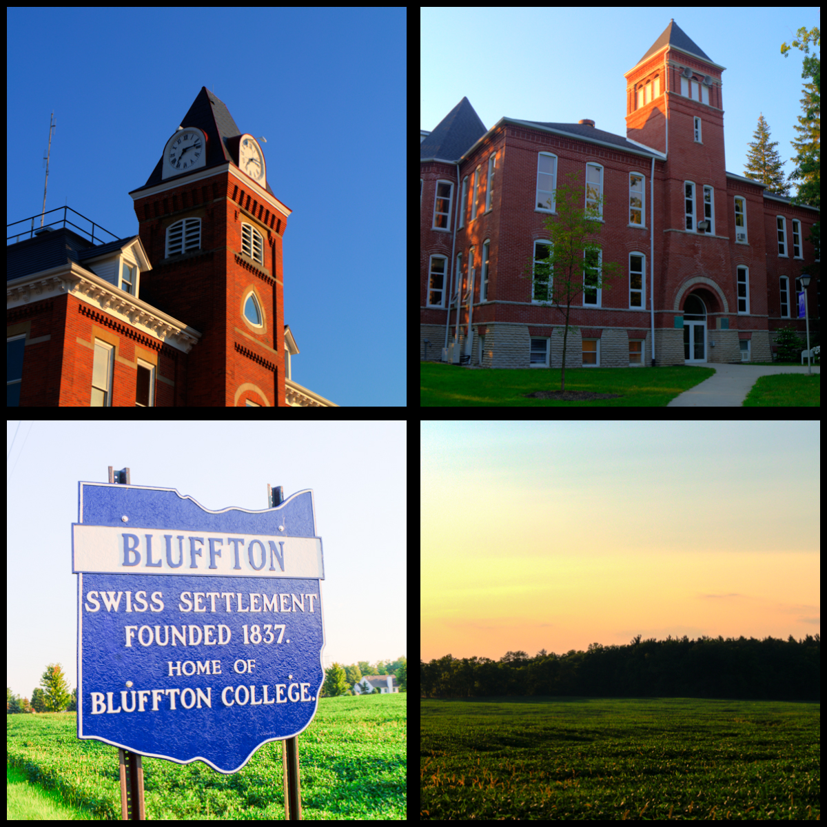 This collage includes Town Hall, College Hall at Bluffton University, a picture of one of the signs marking Bluffton city limits, and a picture of a field on the edge of town.